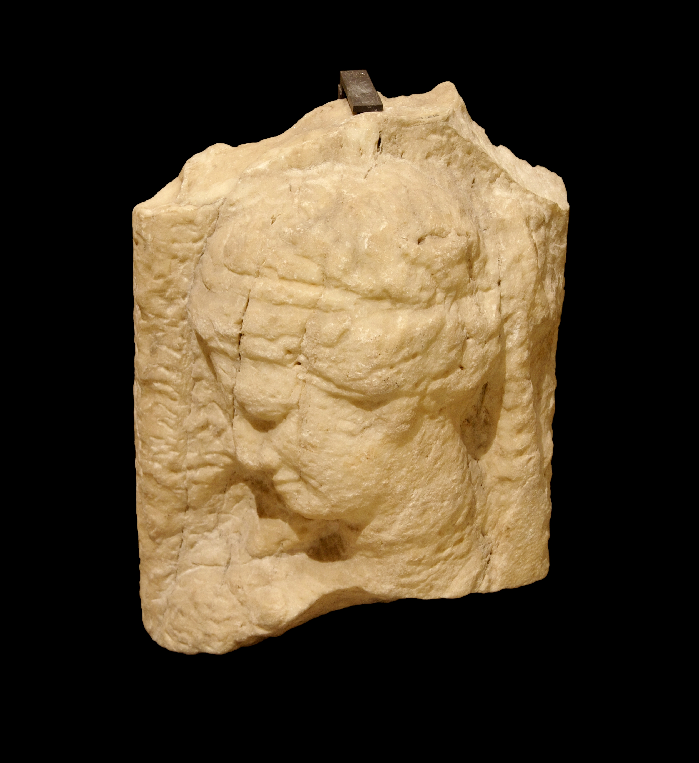 Fragment of a stele. Head of a young women